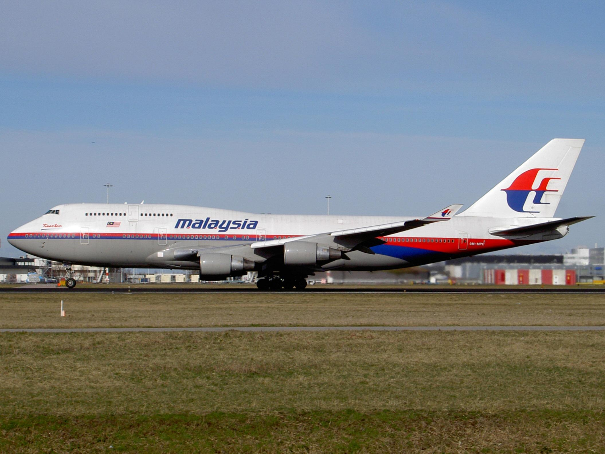 Photographed at Amsterdam Airport, (Schiphol).